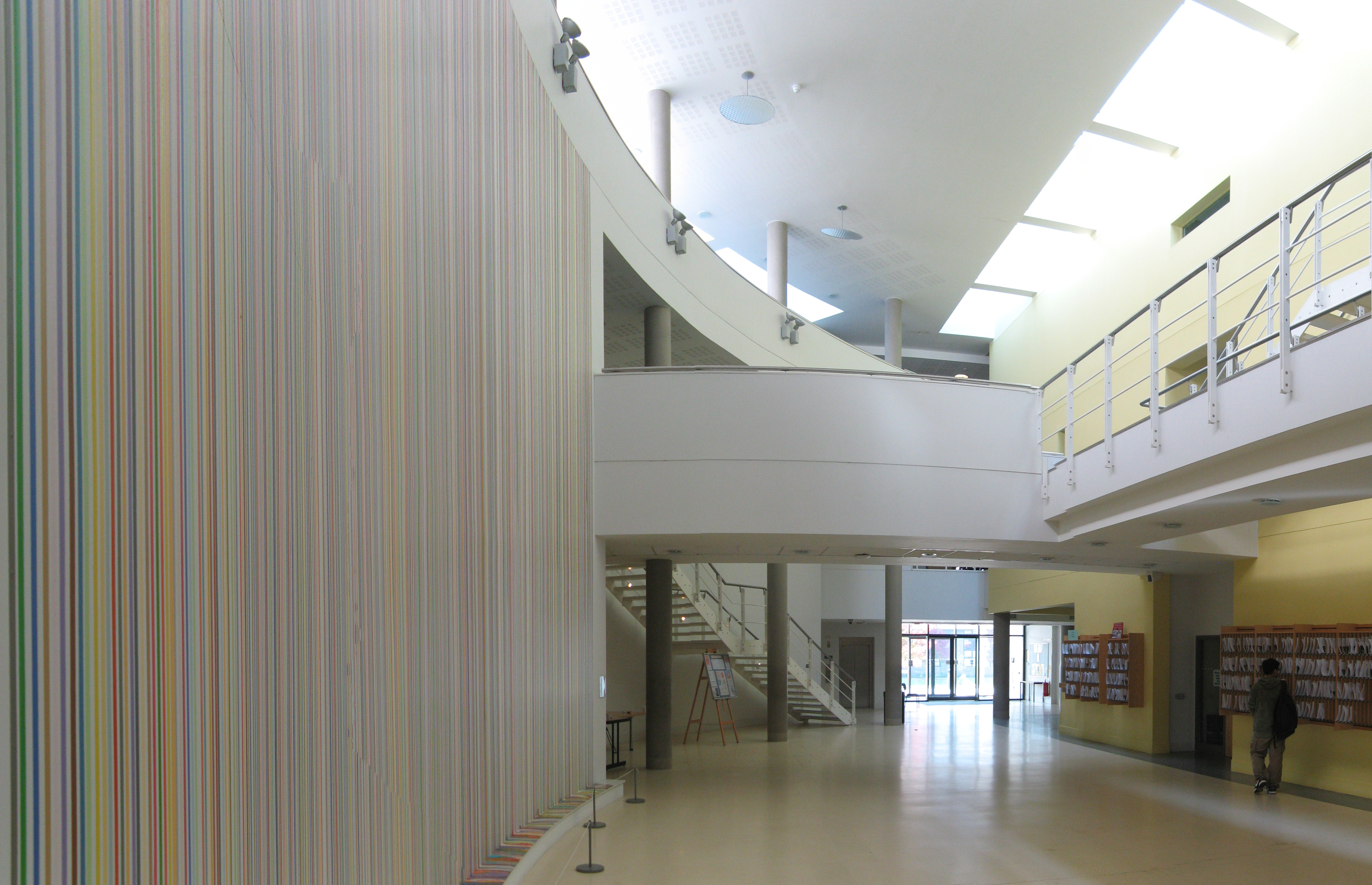 Department of Mathematics foyer, in the Zeeman building (Institute of Mathematics and Statistics), University of Warwick. The paint-poured art work on the left is Everything by Ian Davenport in 2004.[1][2]